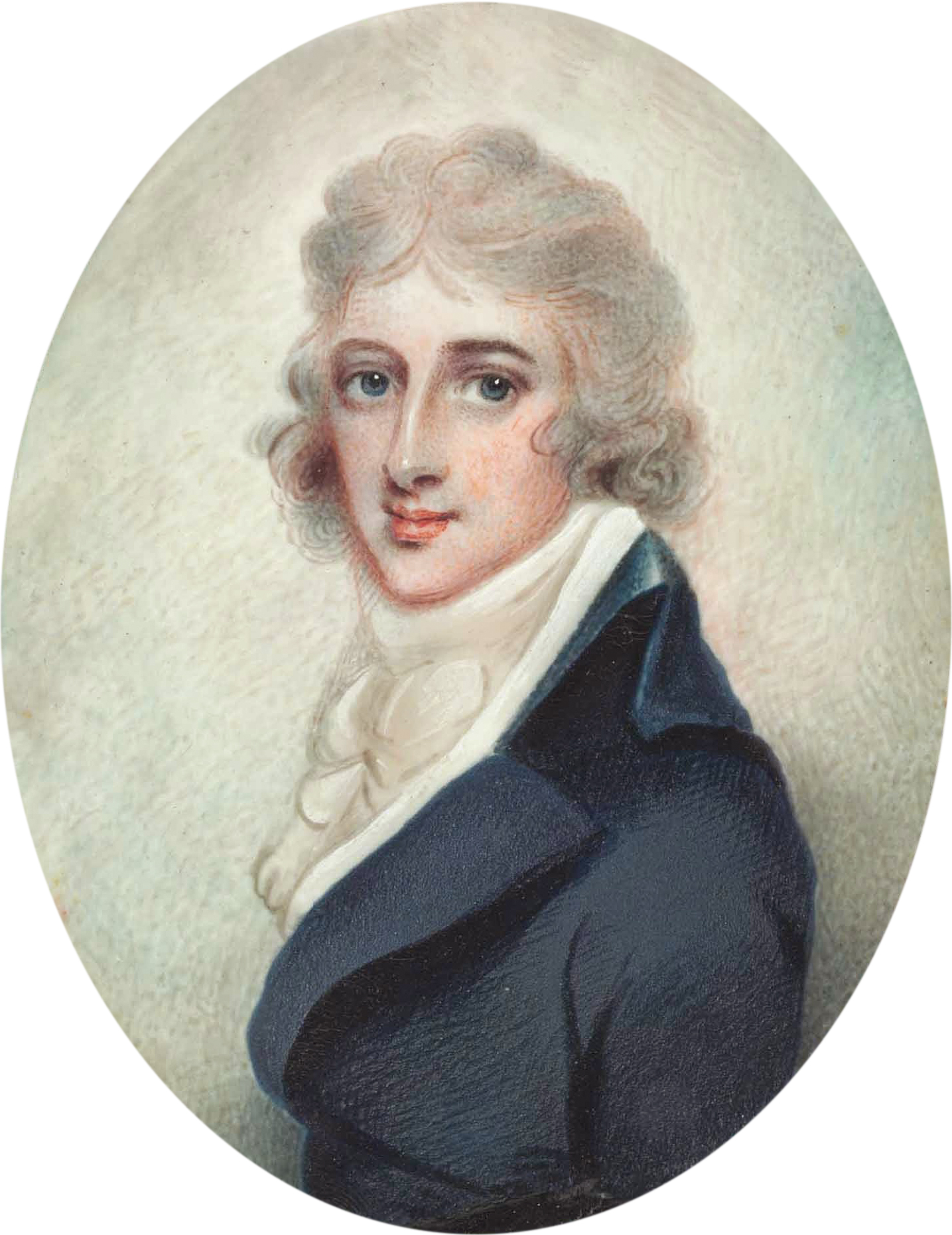 William Craven, 1st Earl of Craven on ivory 7.5 cm